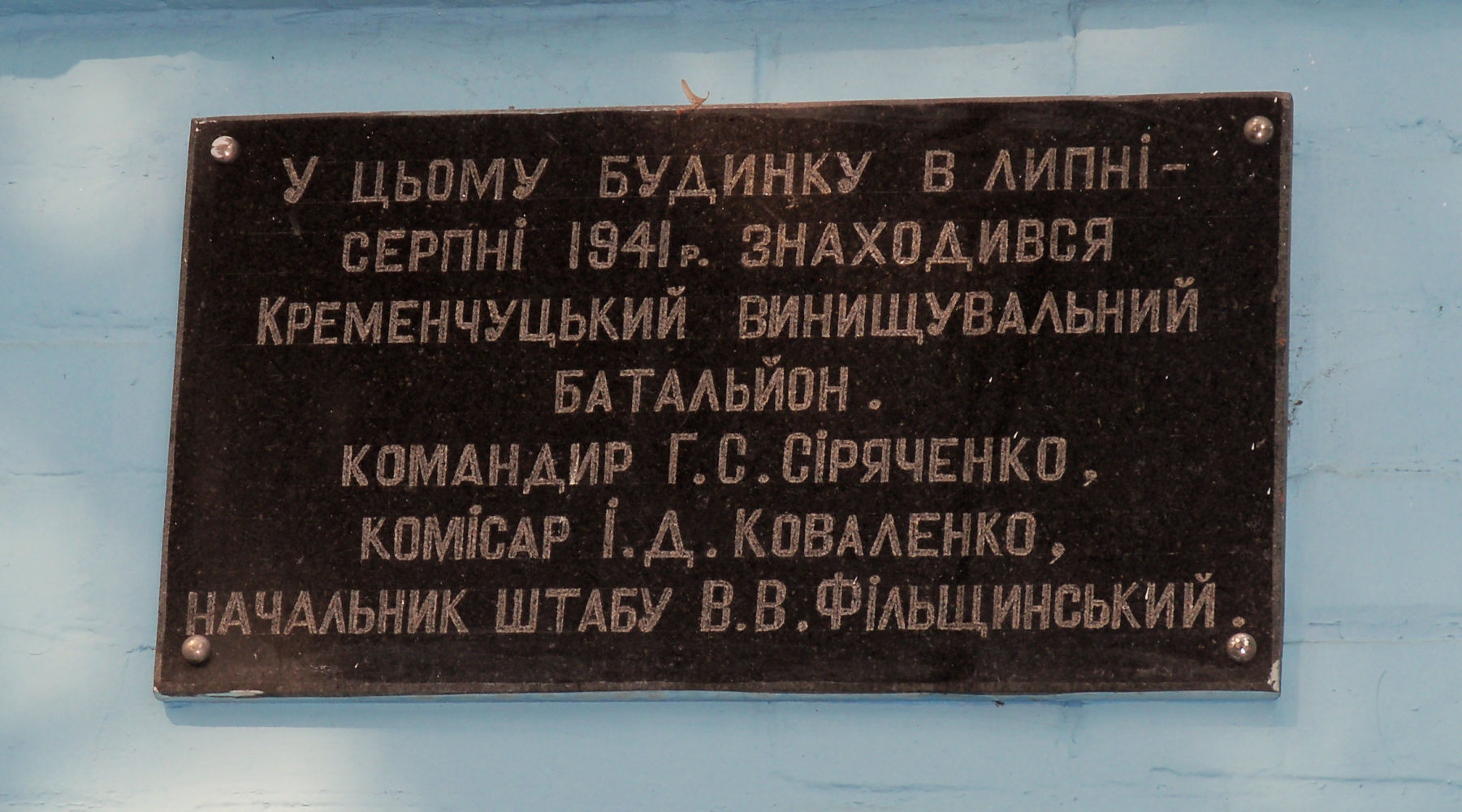 Fighter battalion commemorative plaque in Kremenchuk